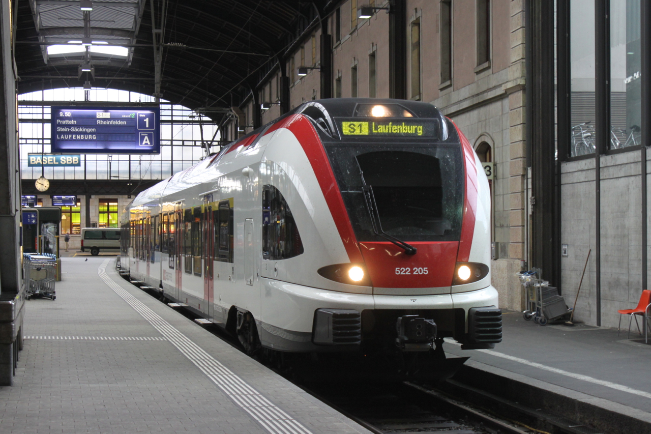 SBB CFF FFS RABe 522 205 ready to leave Basel SBB station with an S1 stopping train to Laufenburg.